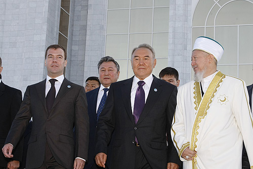 AKTYUBINSK. During a visit to the central mosque of the Aktyubinsk region. With President of Kazakhstan Nursultan Nazarbayev and the Supreme Mufti of Kazakhstan Absattar-Hadji Derbisali.